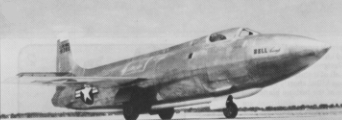 Bell X-1D experimental aircraft